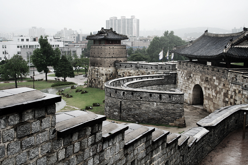 Hwaseomun (Gate).